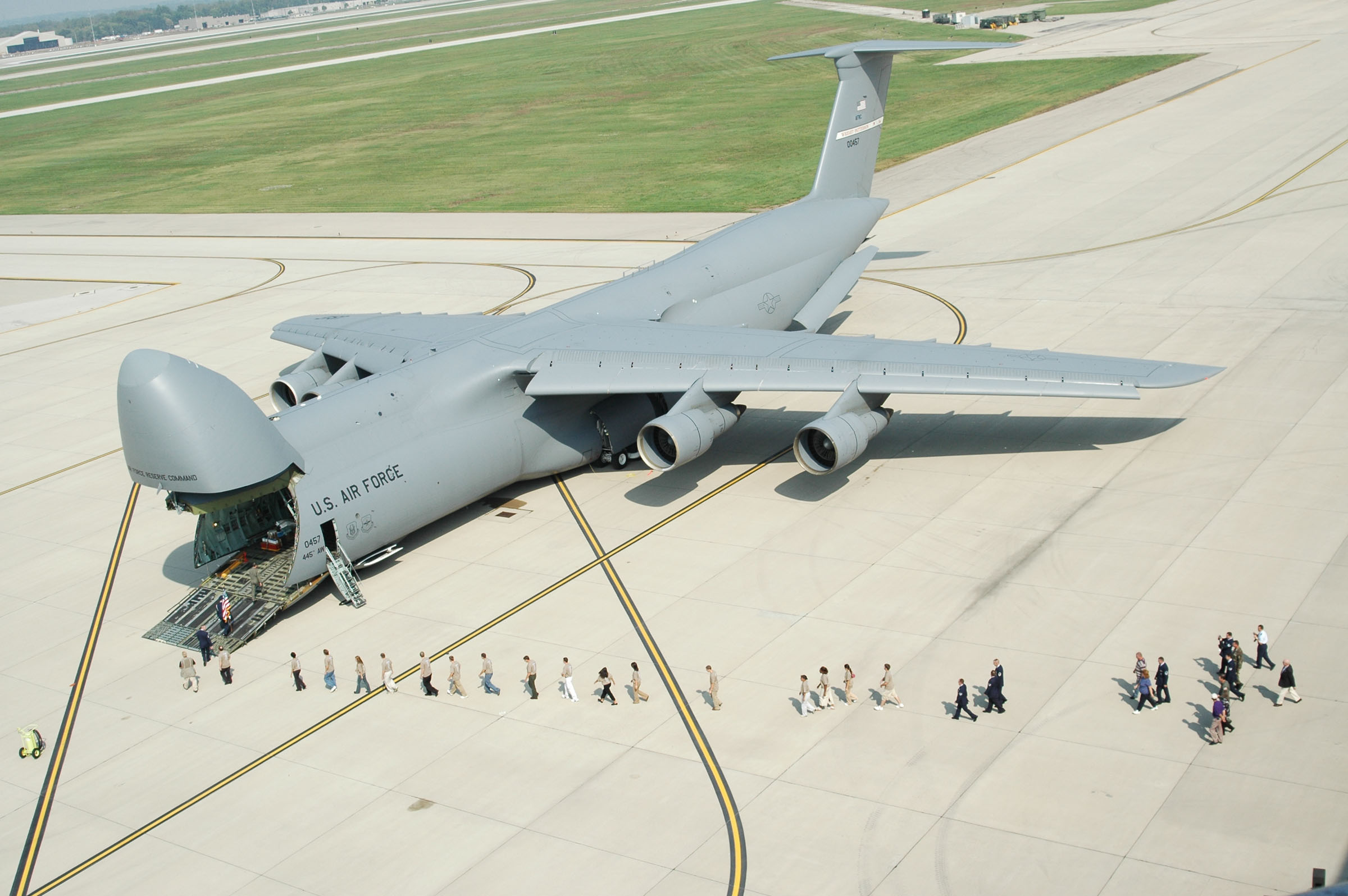 People line up to enter the 445th Airlift Wing’s first C-5A Galaxy at Wright-Patterson Air Force Base, Ohio (USA).